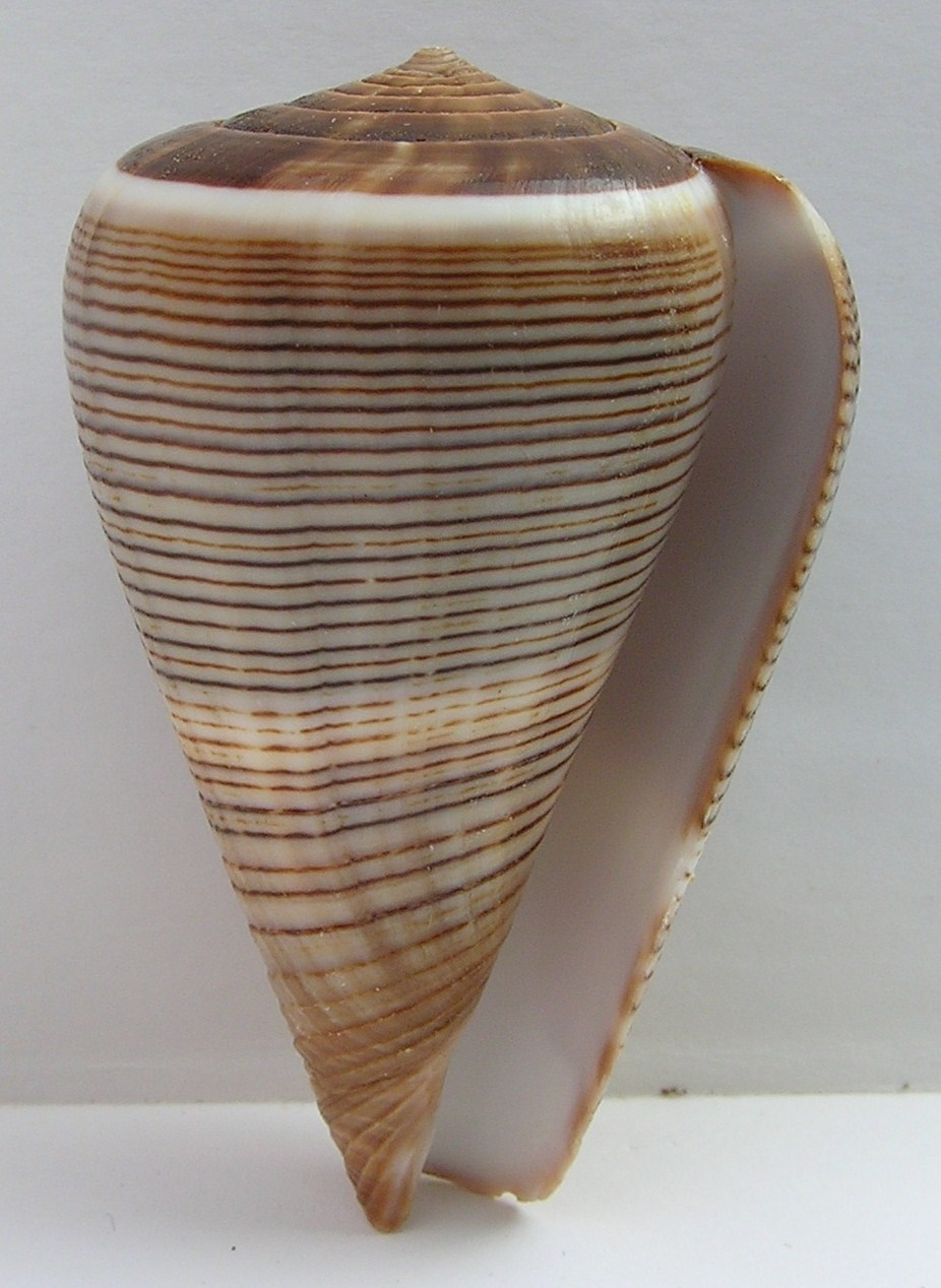 Conus figulinus Linnaeus, 1758 ; Malaysia.